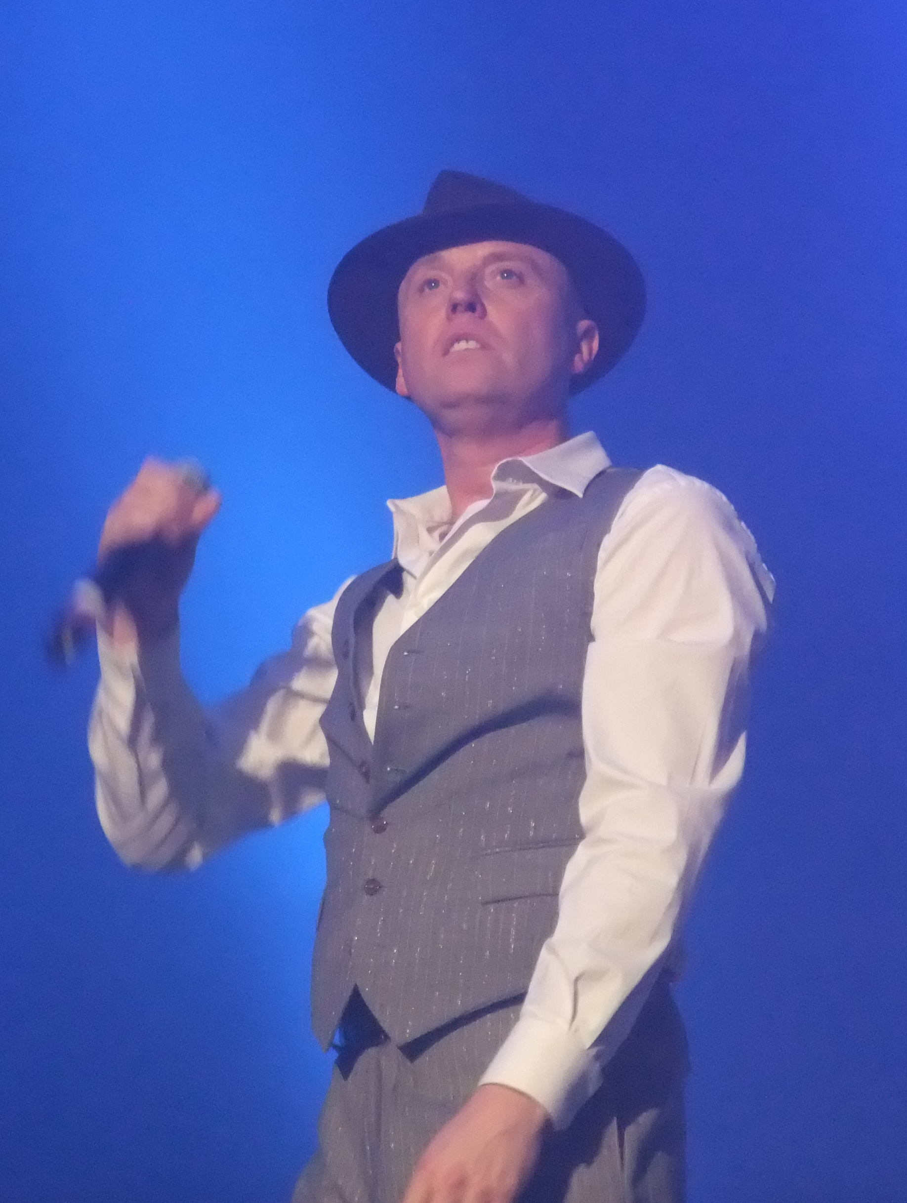 Glenn Gregory of Heaven 17 on stage in 2008